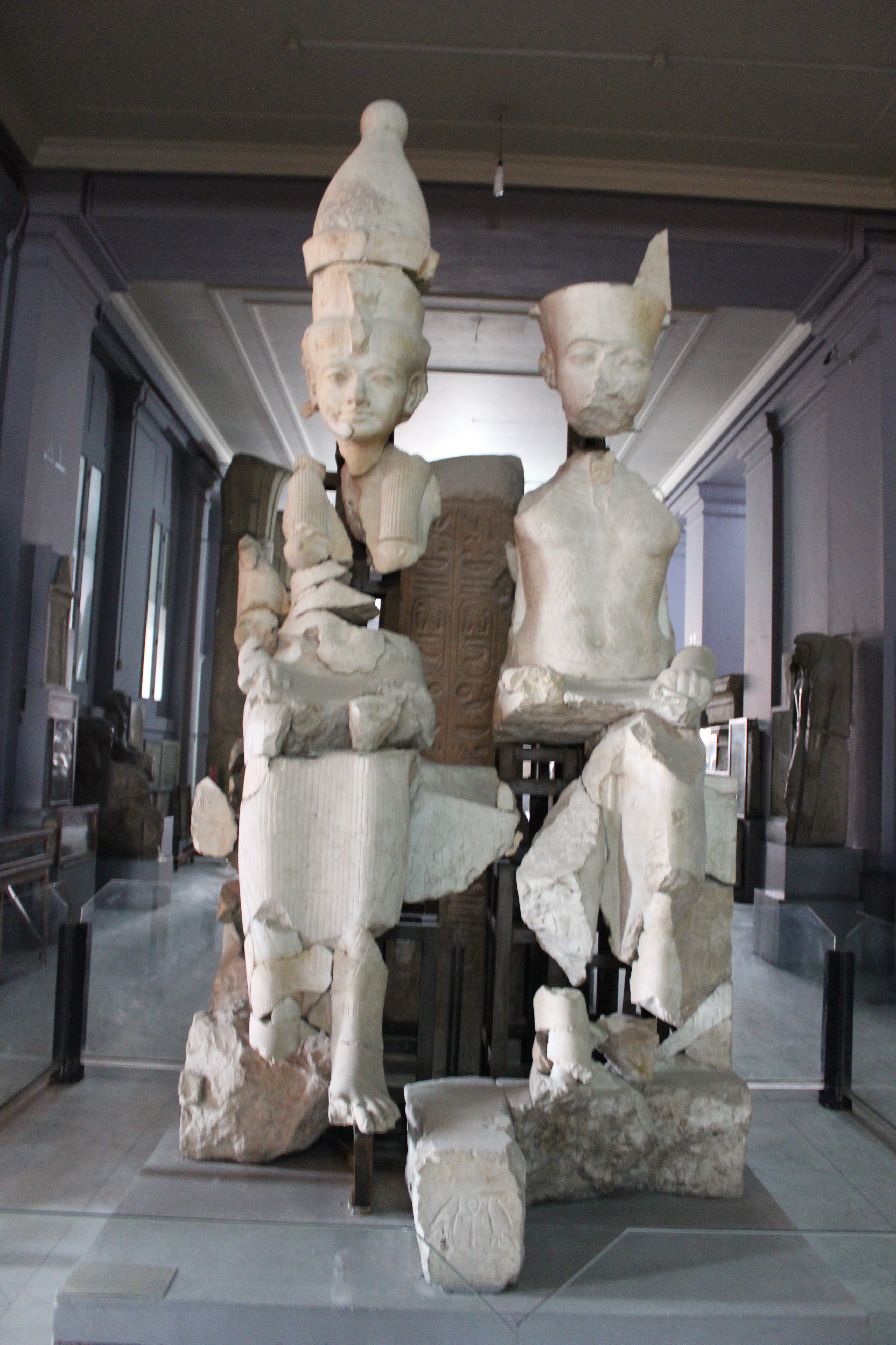 Monumental Dyad representing Amun and Mut from Karnak, Egyptian Museum in Cairo, Egypt.)